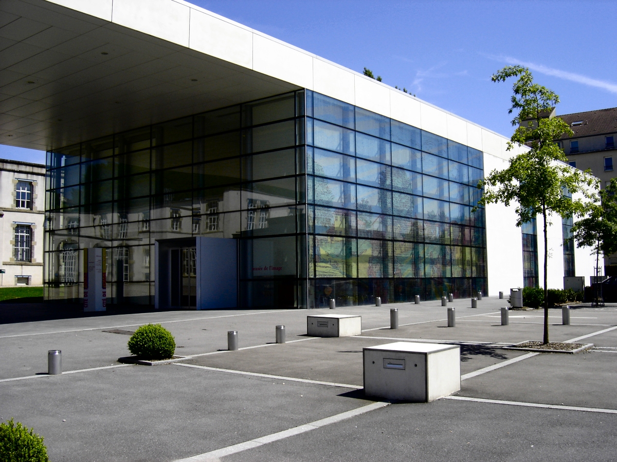 Le Musée de l'Image.